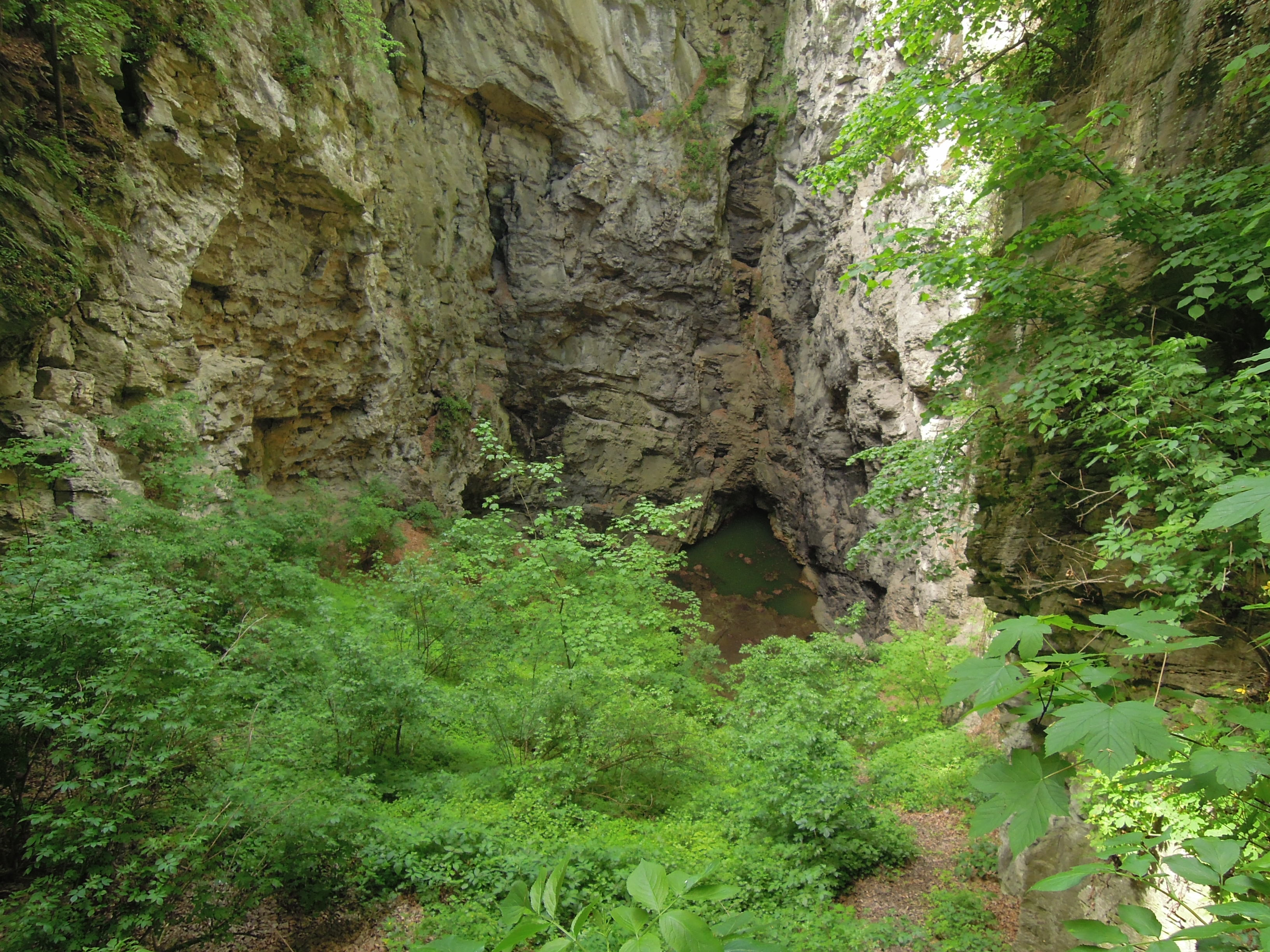 National nature reserve Hůrka u Hranic near Hranice, Přerov District, Oloumouc Region, Czech Republic